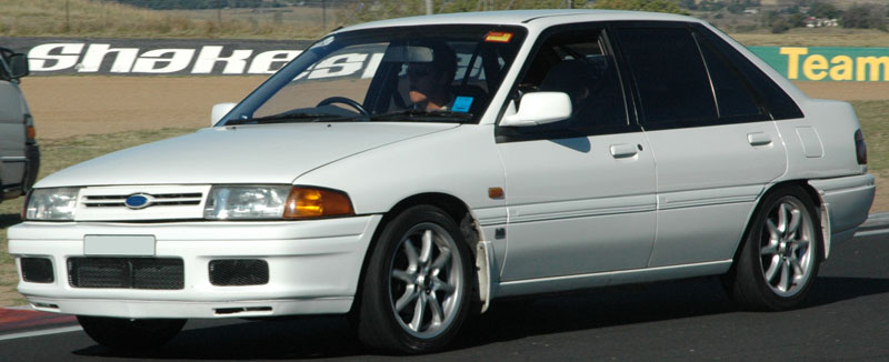 1990 Ford Laser KF 5 Door Hatchback